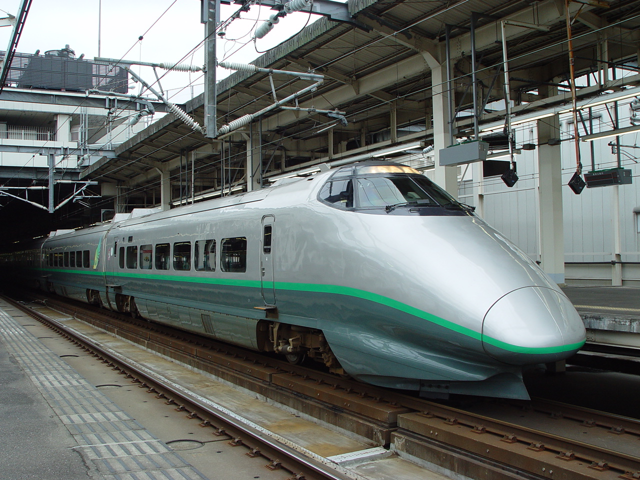 JR East 400 series shinkansen set L1 at Omiya Station on a down Tsubasa service